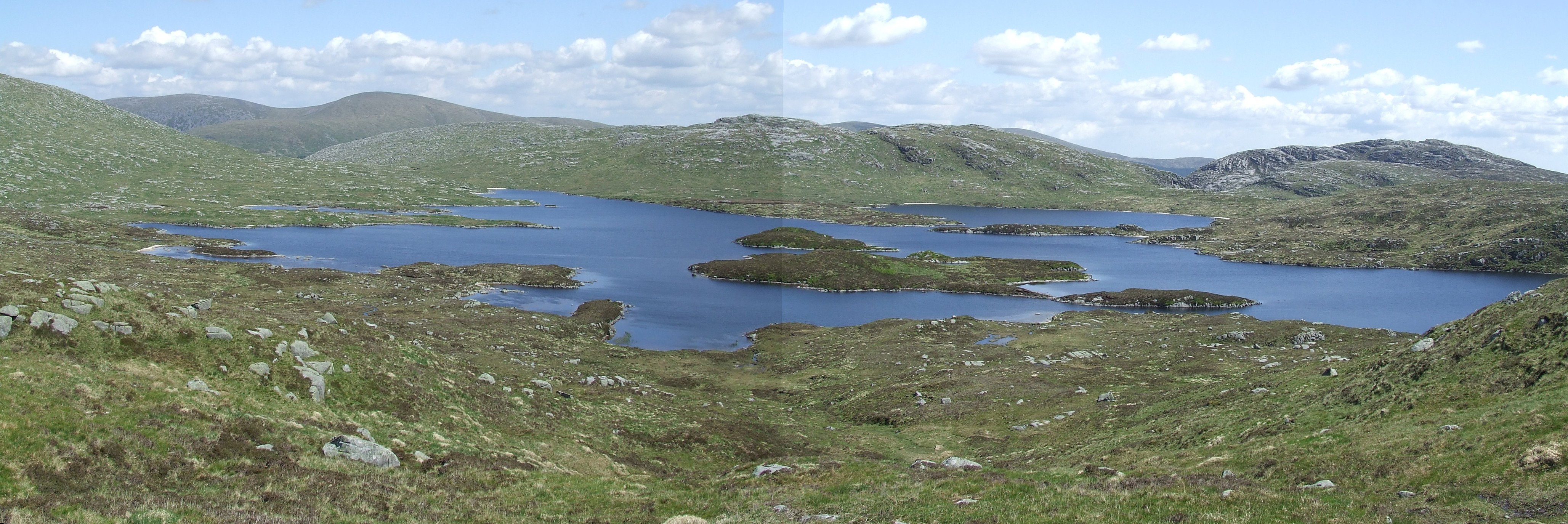 Panorama of Loch Enoch (nr Merrick) looking East